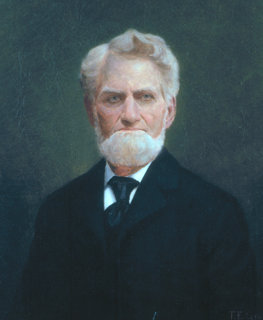 Preston Leslie, Governor of Kentucky and Montana Territory